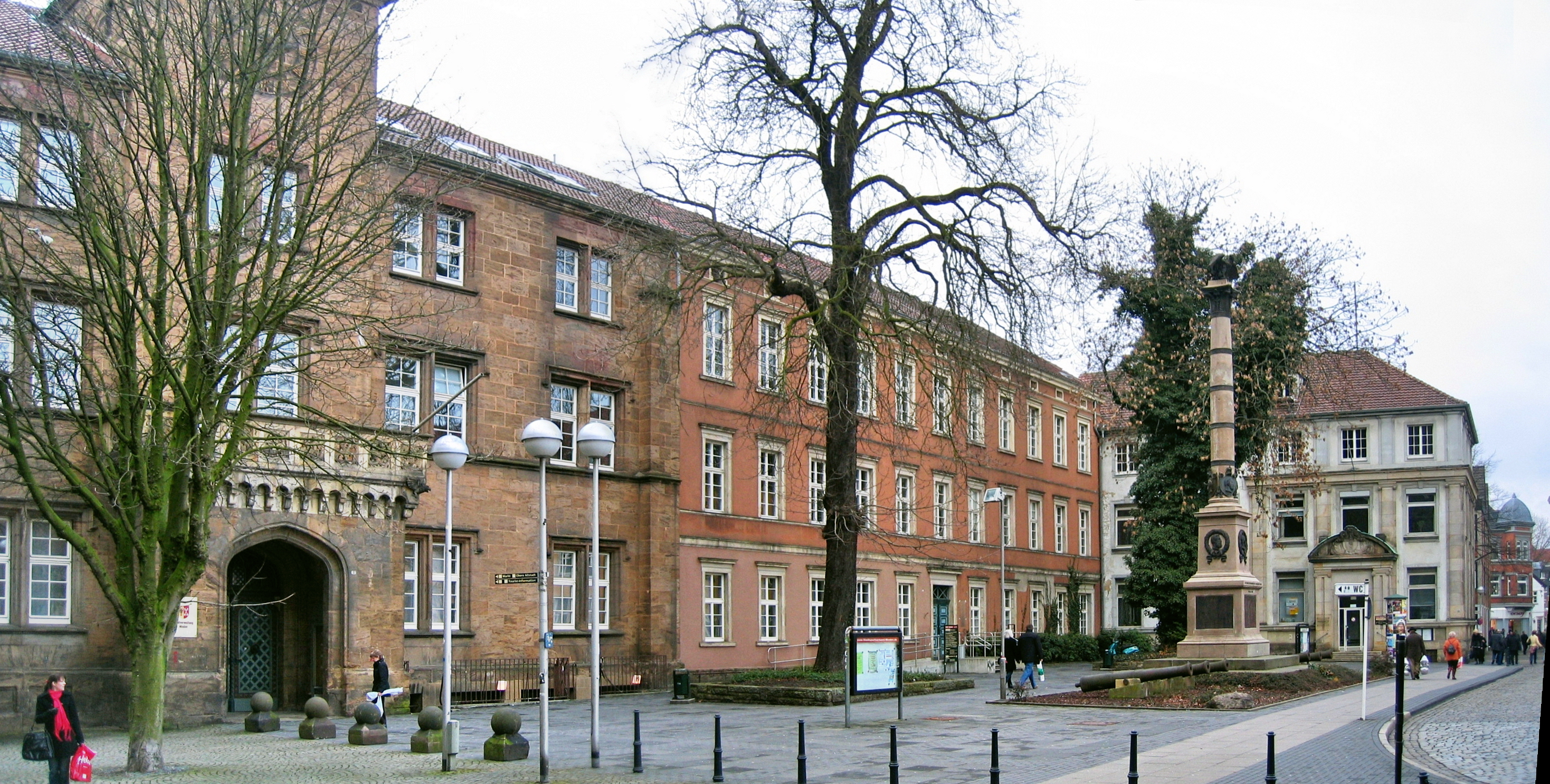 Alte Regierung in Minden, Minden-Lübbecke, North Rhine-Westphalia, Germany.